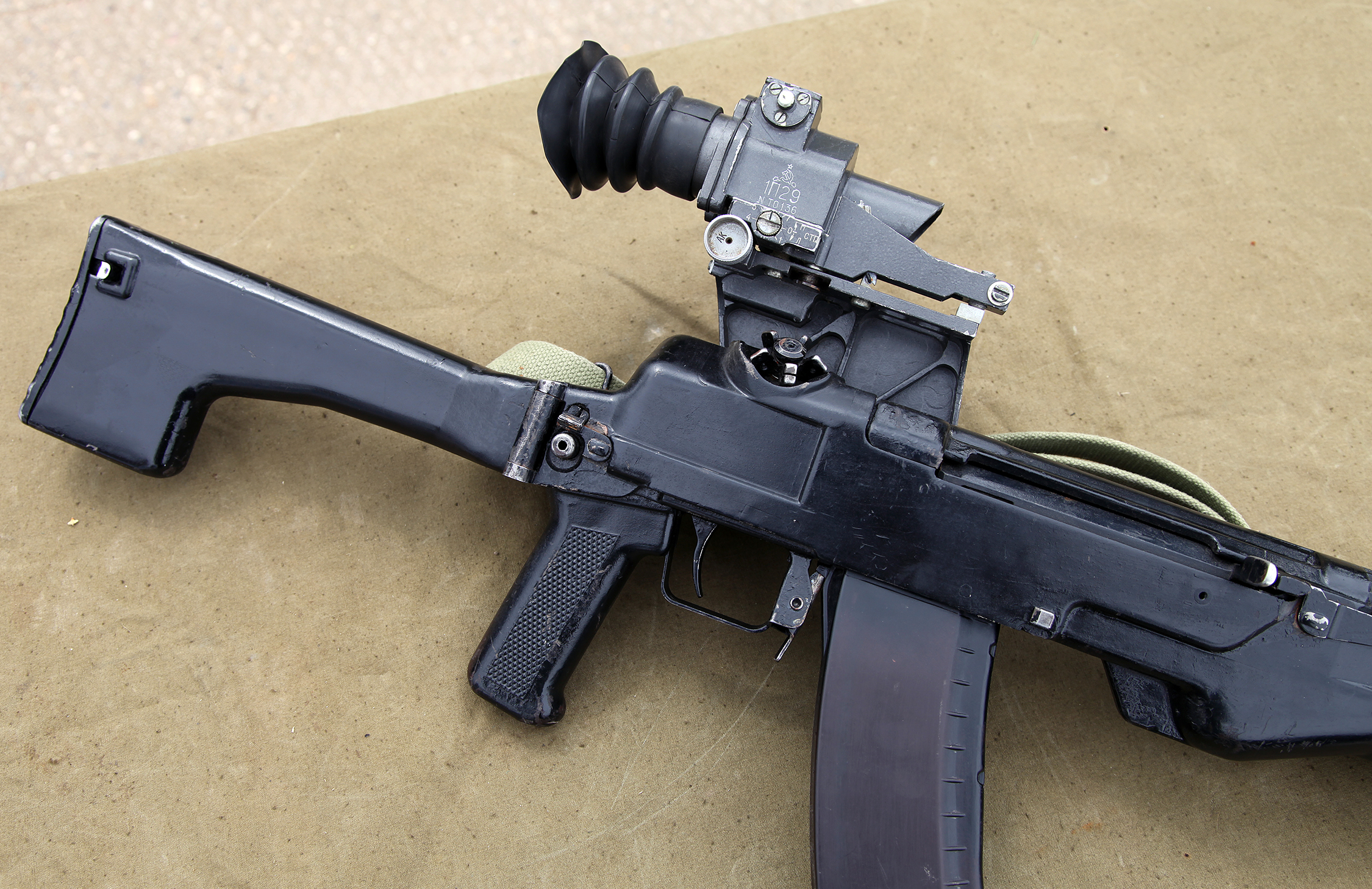 Prototype of AN-94 assault rifle, also known as LI-291 - Tank Biathlon-2014